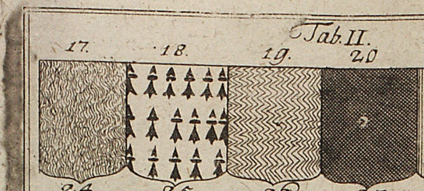 Hatchings of additional tinctures (Naturfarbe and Eisen) by Rink. Presented by: Johann Christoph Gatterer, Abriss der Heraldik. Nürnberg, 1774. Tab. II. fig. 19. and 20.